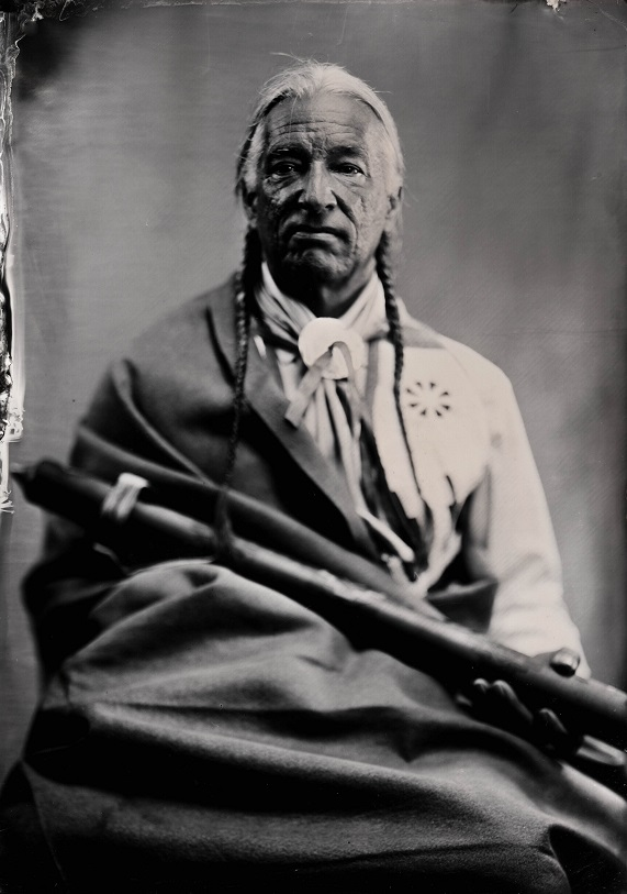 First to Awaken, A wet plate collodion photograph of Kevin Locke